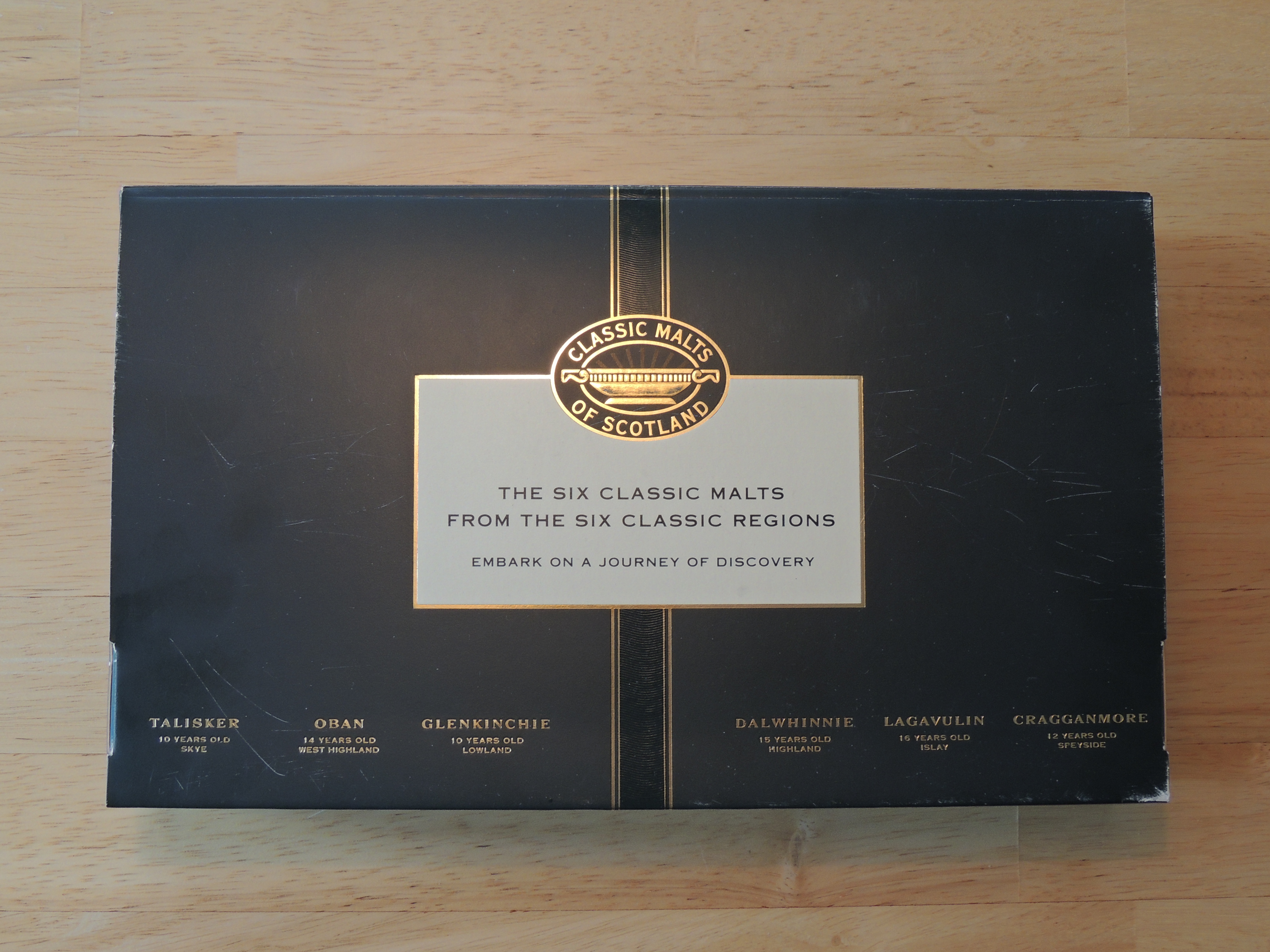 This is the six classic malt whiskys of Scotland outside of box.